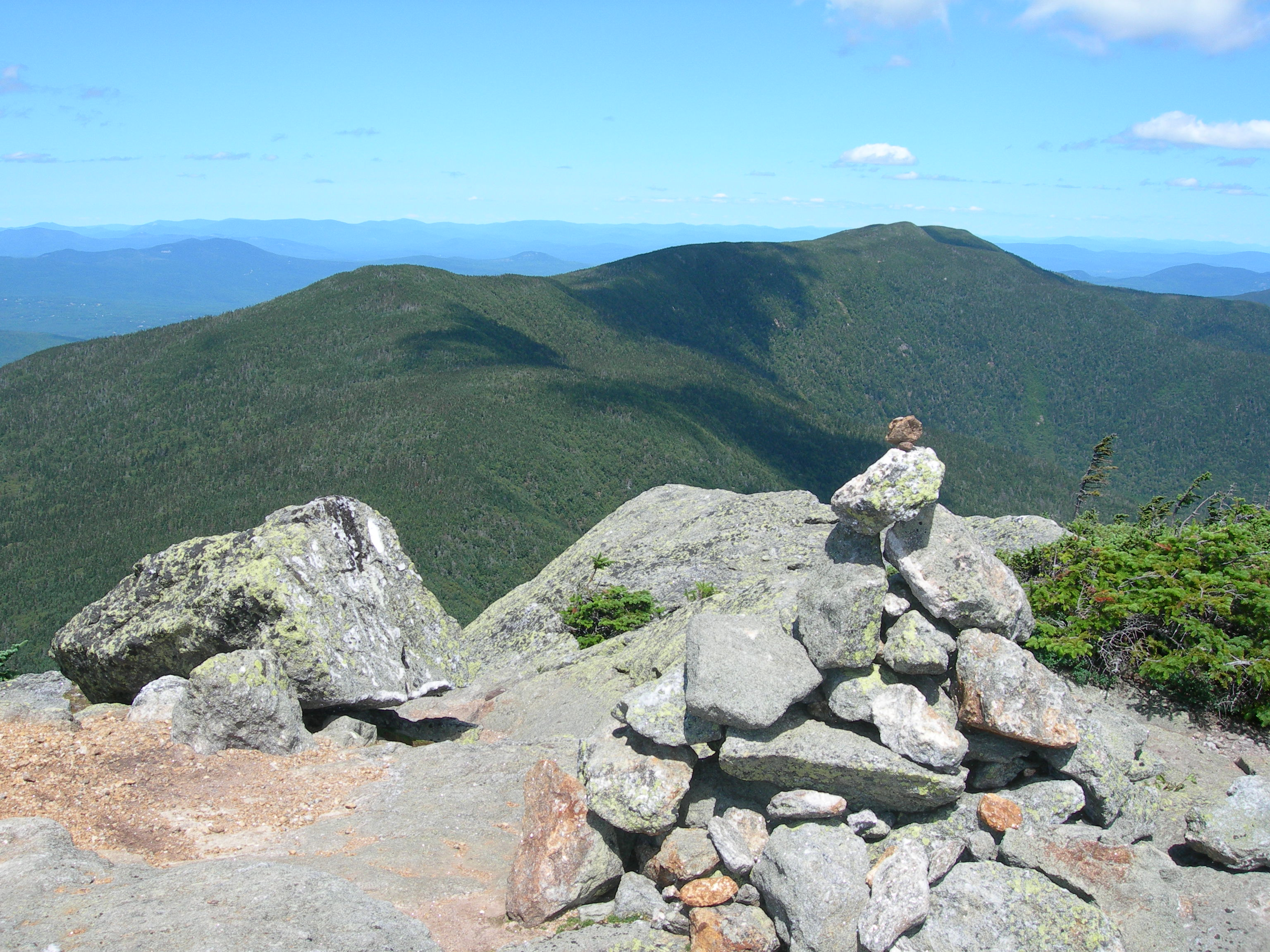 South and Middle Carter Mtns. seen from Mt. Hight, NH